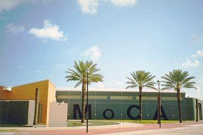 Museum of Contemporary Arts, North Miami, Florida